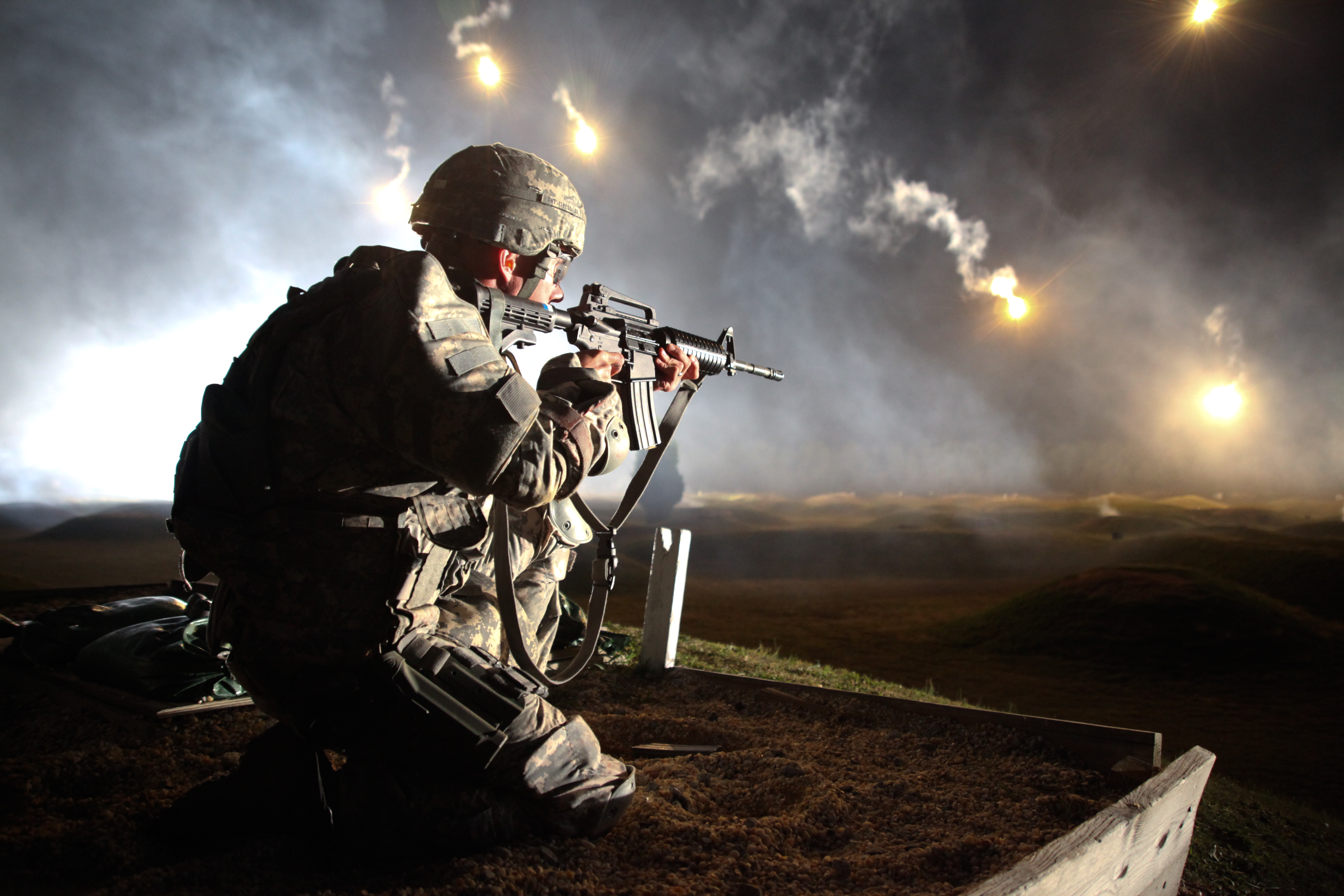 U.S. Army Sgt. Larry J. Isbell of Oklahoma City, Ok., representing the National Guard, watches his firing lane for targets during the M4 carbine Range Qualification event during the Department of the Army's 10th annual Best Warrior Competition held on Fort Lee, Va., Oct. 21.